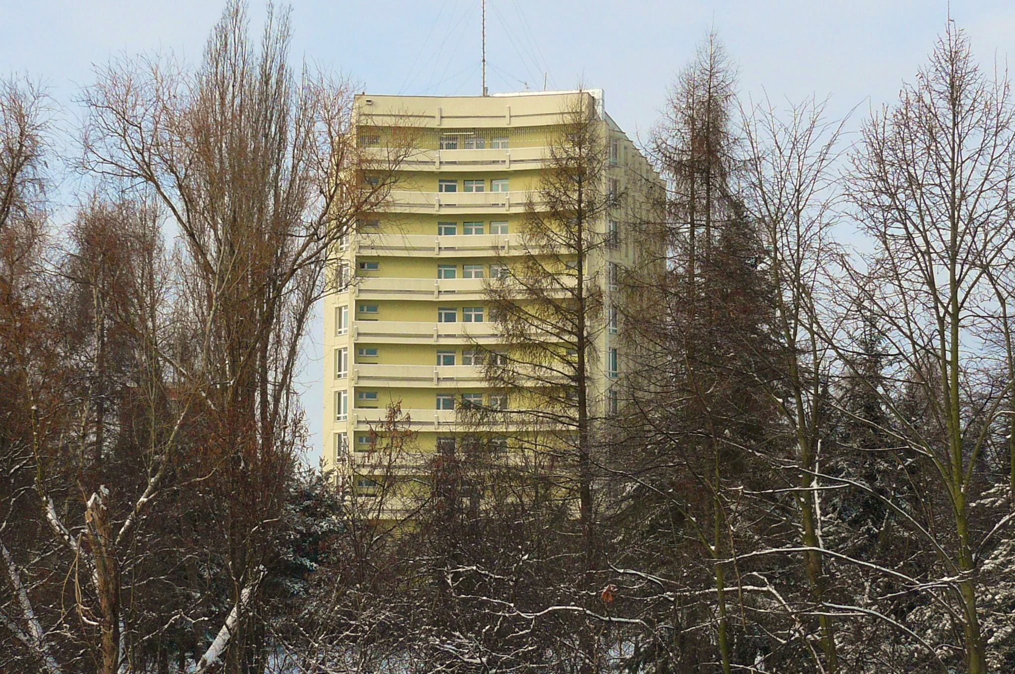 MSWiA Hospital, Poznan.